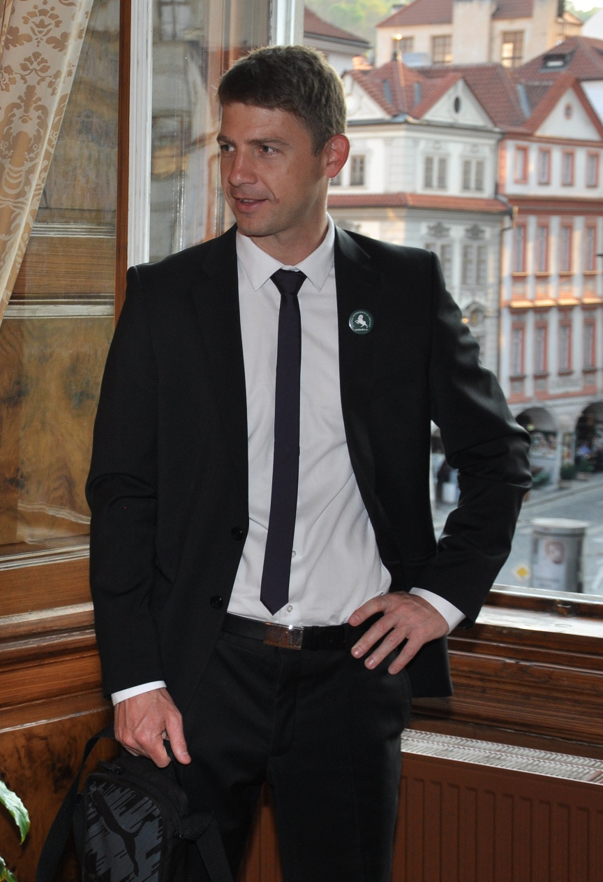 Cropped version of Ivan Bartoš a Petr Mach (14001188144).jpg.